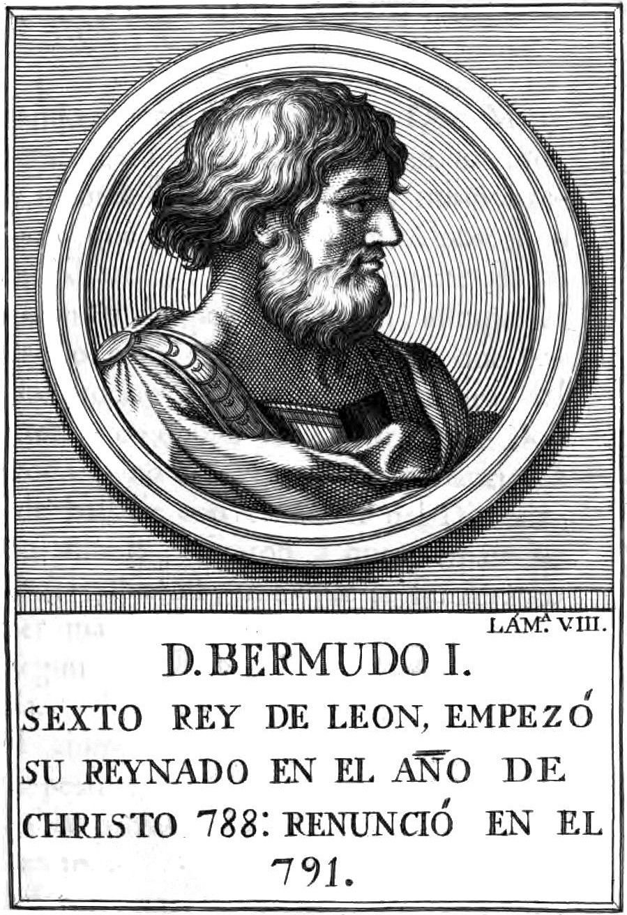 Bermudo I of Asturias